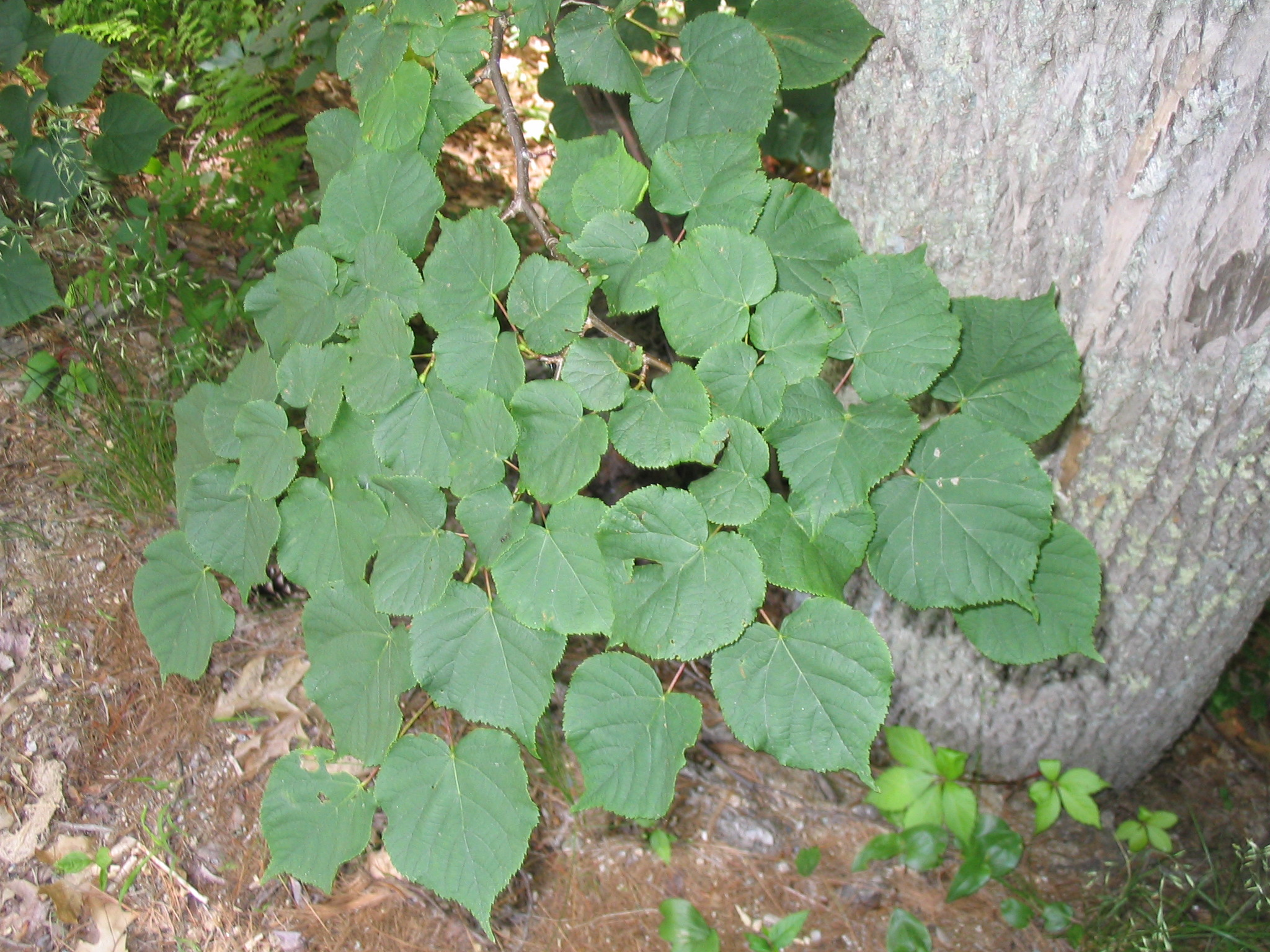 American Basswood (Tilia americana)